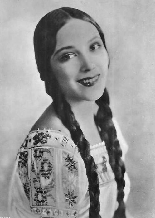 Promotional picture of Dolores del Río from the American drama film Ramona (1928).